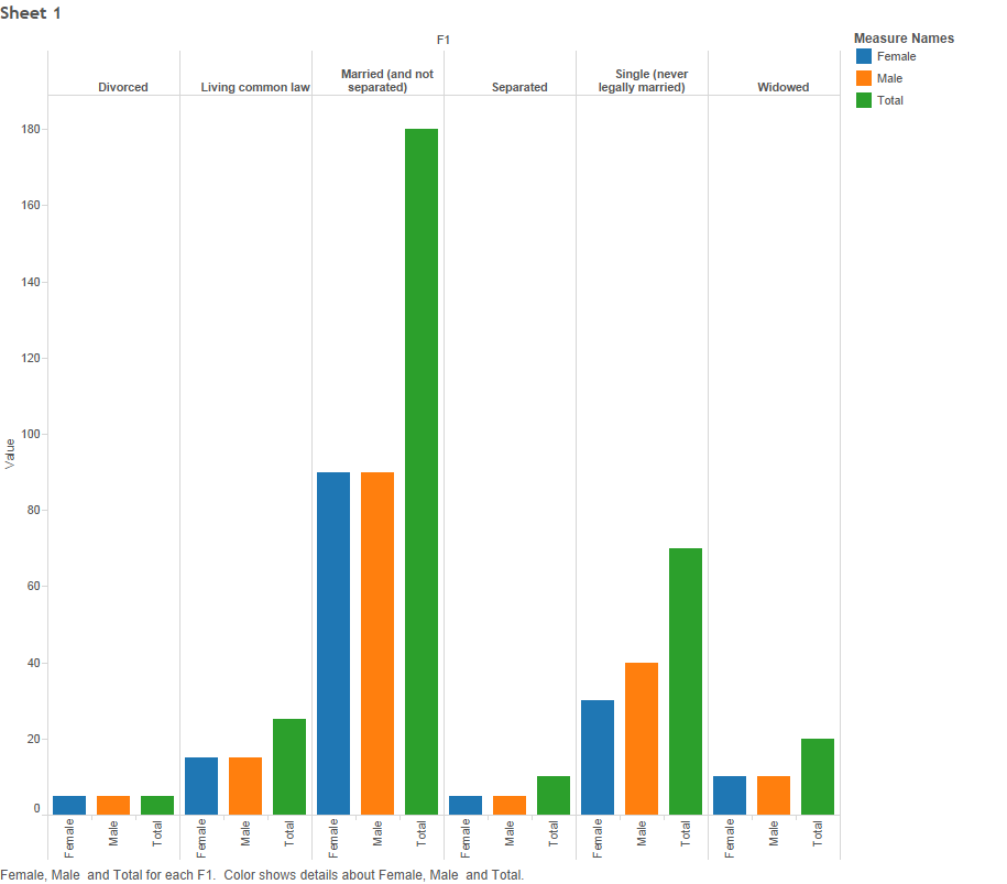 Marital Status in Willow Bunch